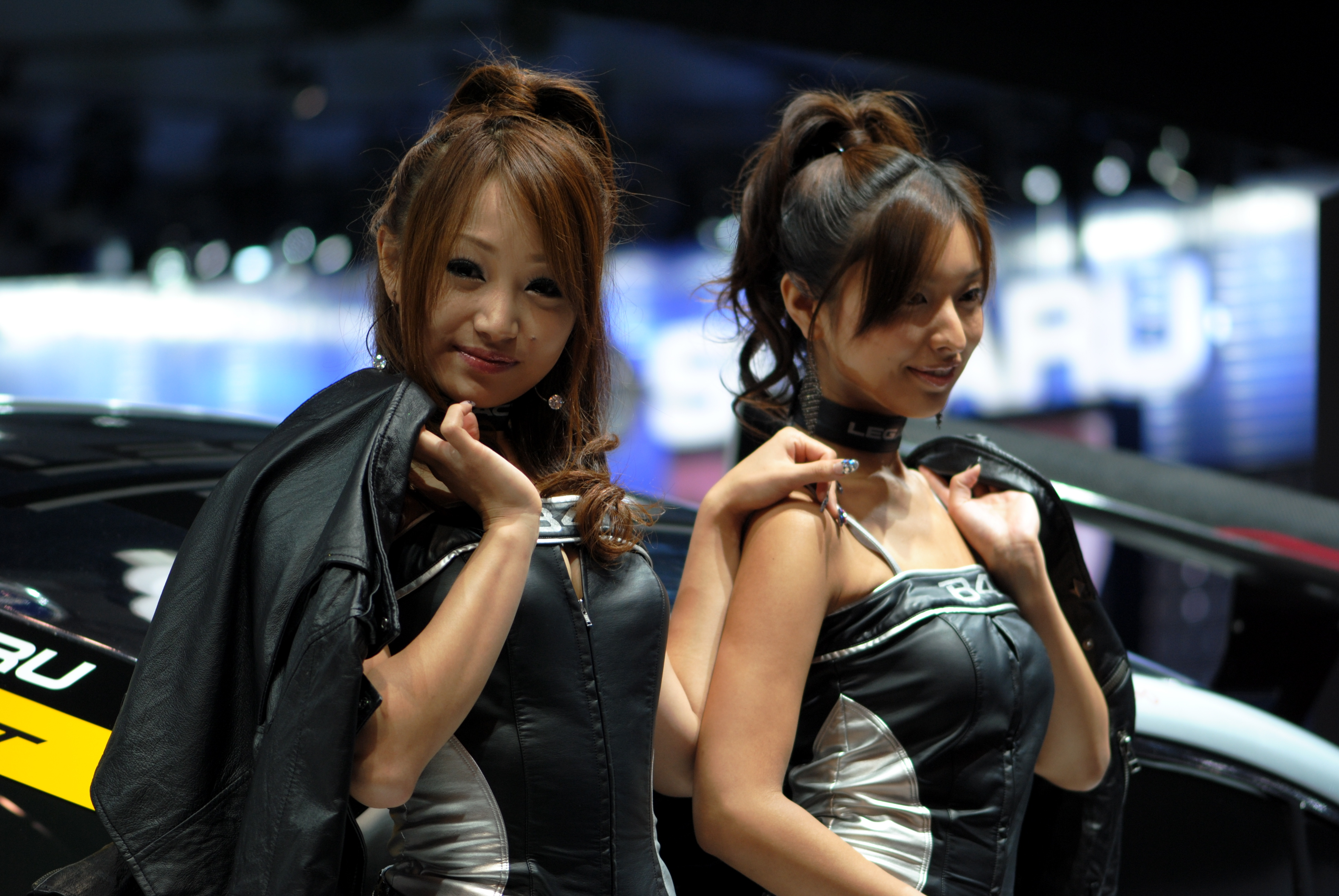 Tokyo Motor Show 2009